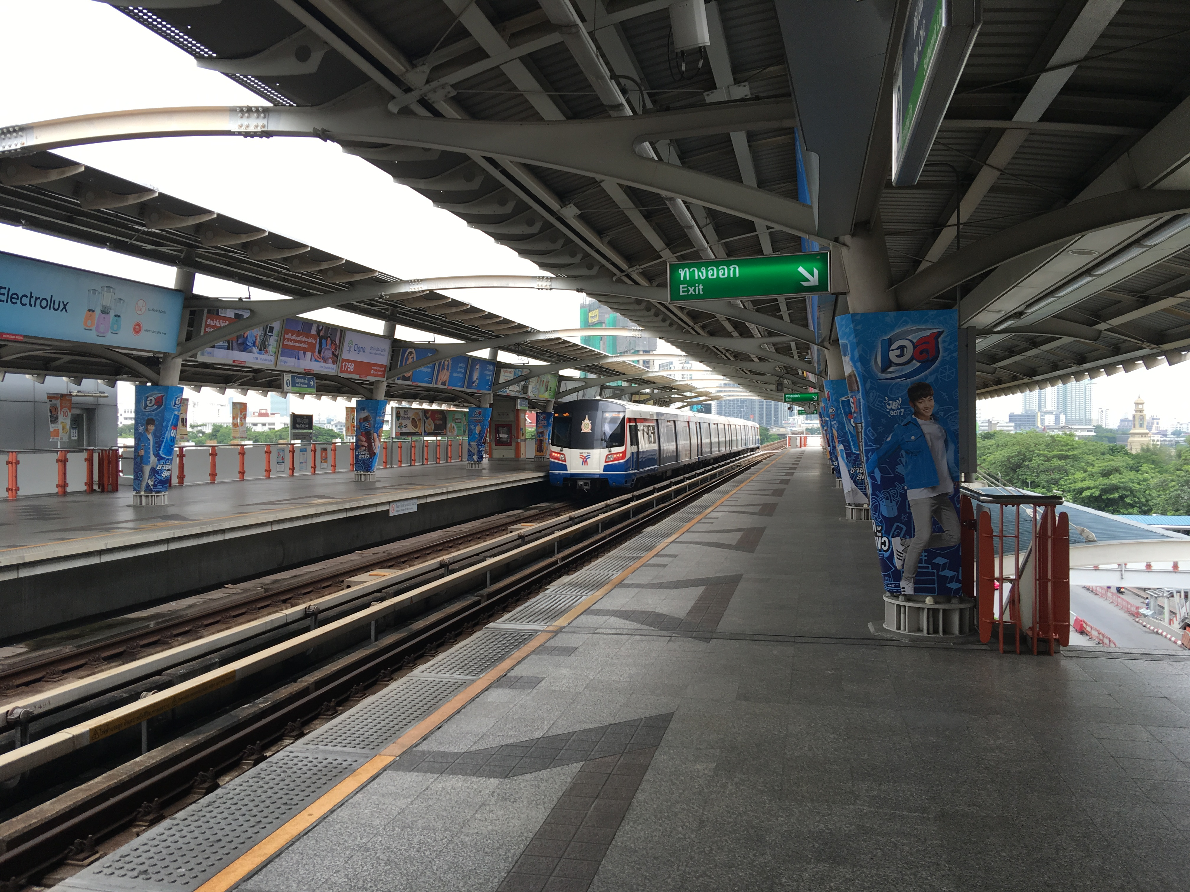 Mo Chit Station on 20 September 2016